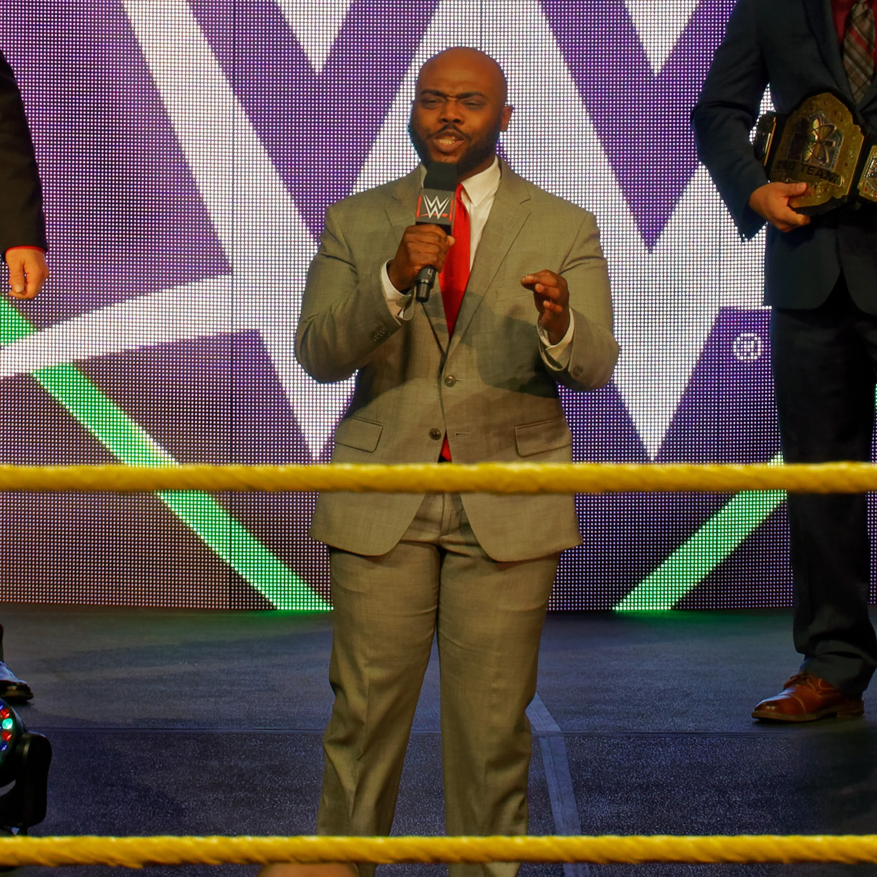 Malcom Bivens debuted on Axxess weekend in 2018.